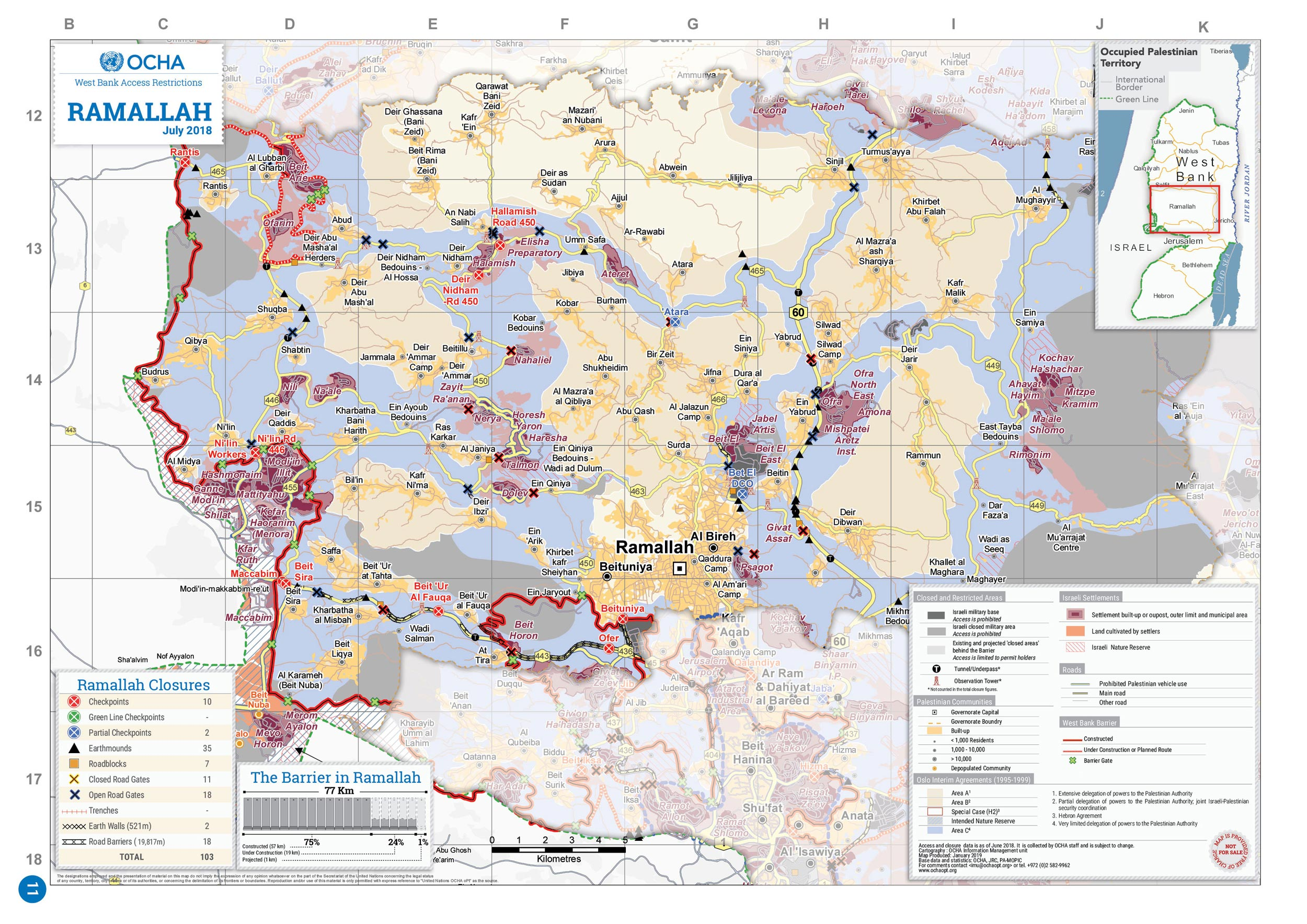 2018 OCHA OpT map